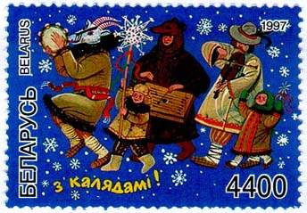 Stamp of Belarus